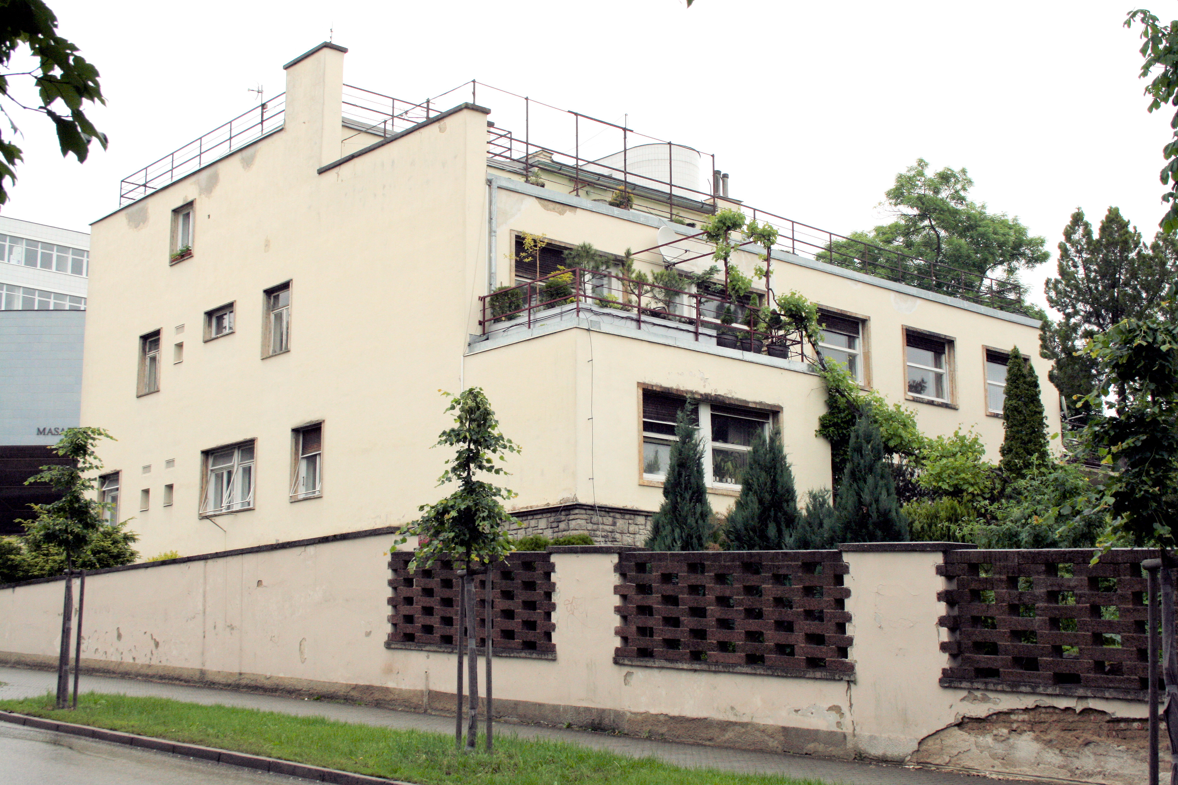 Villa of Gustav Haas, Brno, Czech Republic. Česky: Vila Gustava Haase, Lipová 43, Brno (Pisárky). Pohled od jihozápadu z ulice Lipová.